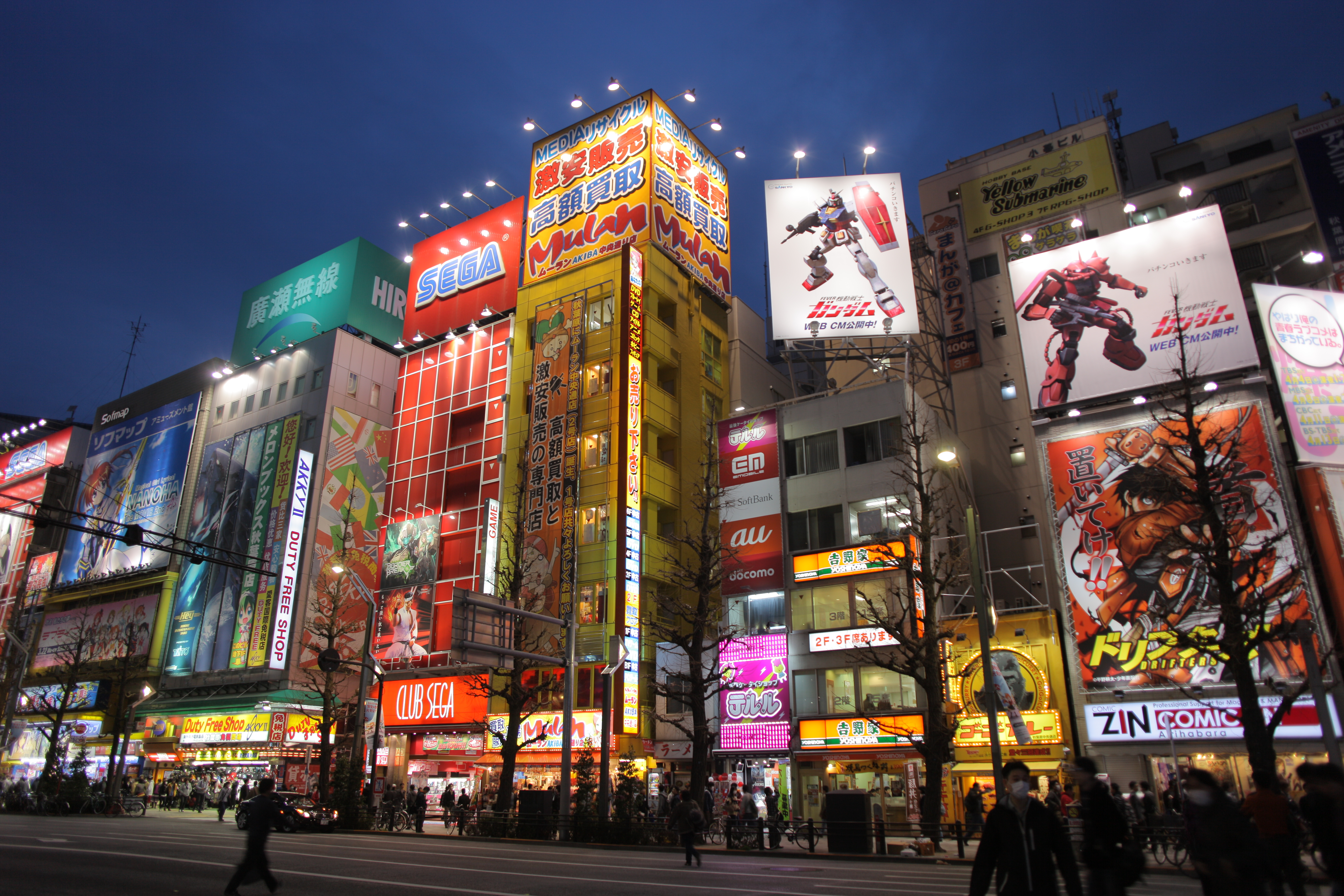 Main road of Akihabara in Tokyo, Japan